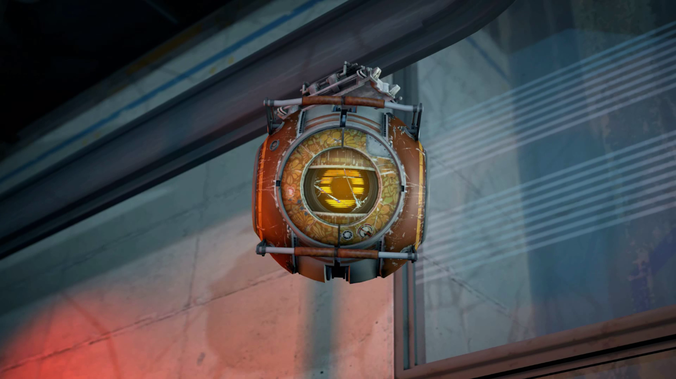 Virgil the maintenance core, created in the '70s in the old Aperture. Screenshot of the game Portal Stories: Mel. Authorized upload after making a request to Prism Studios Ltd.